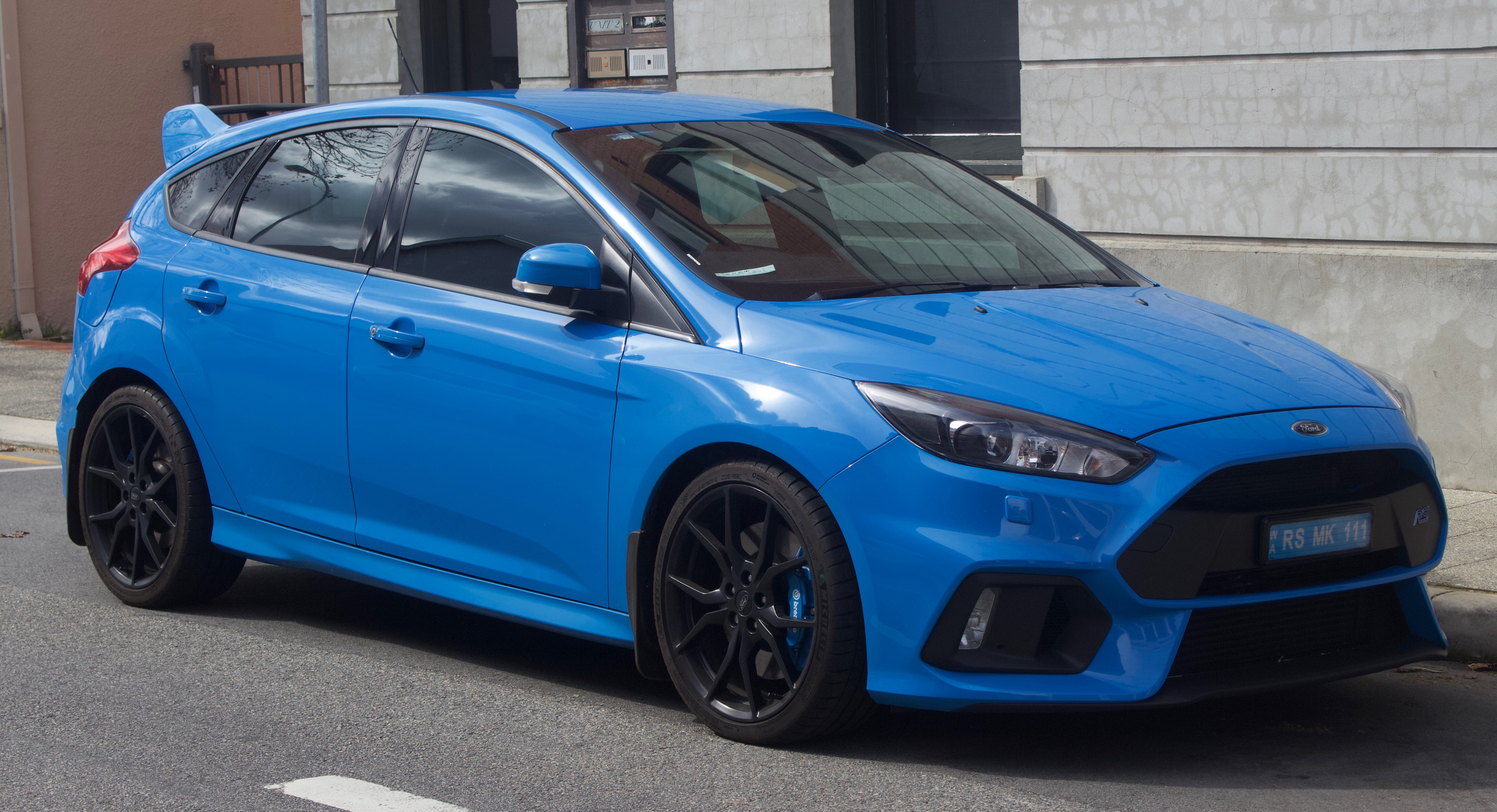 2017 Ford Focus (LZ) RS hatchback. Photographed in Fremantle, Western Australia, Australia.